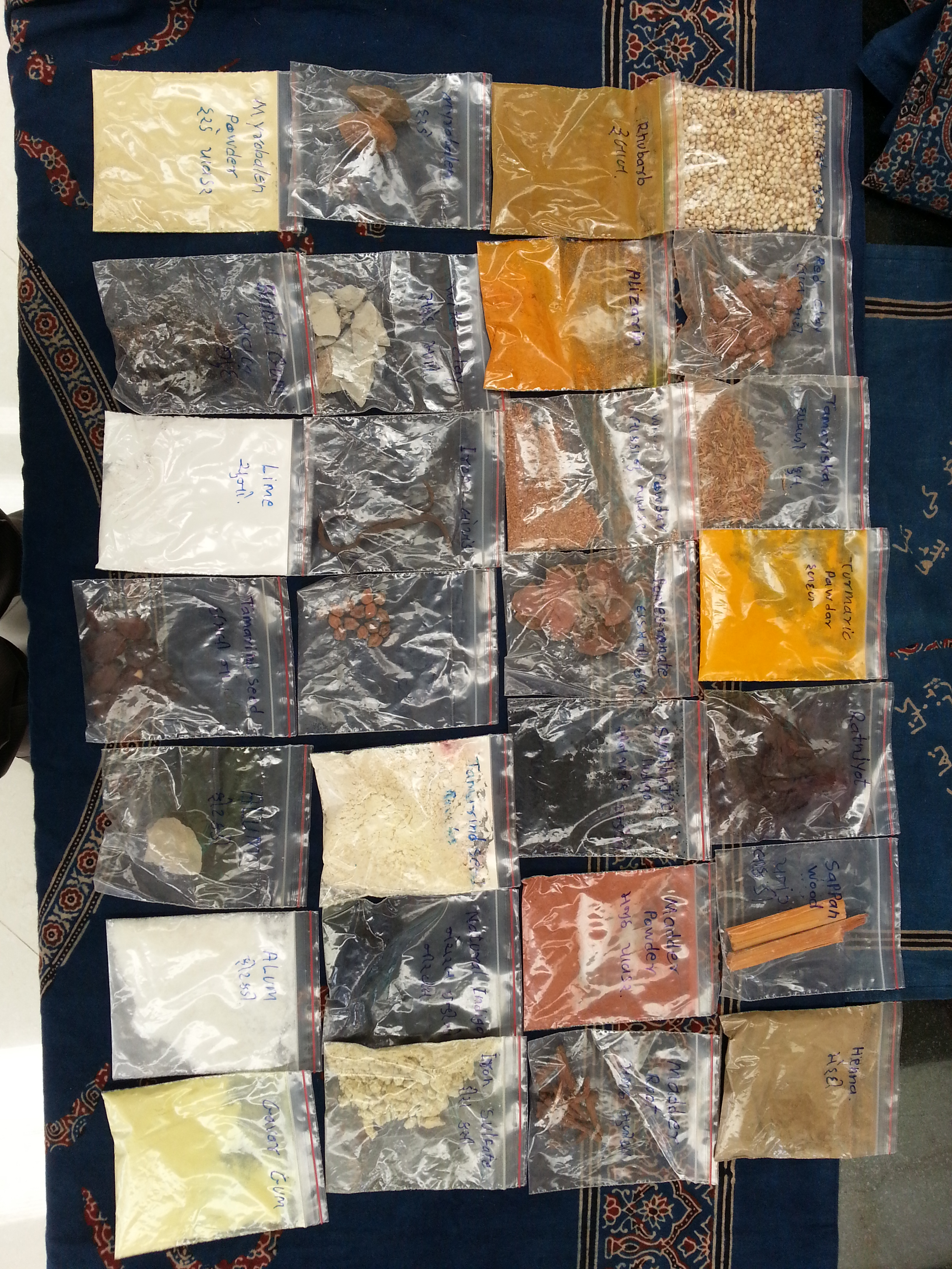 Arab Craft Natural dye products